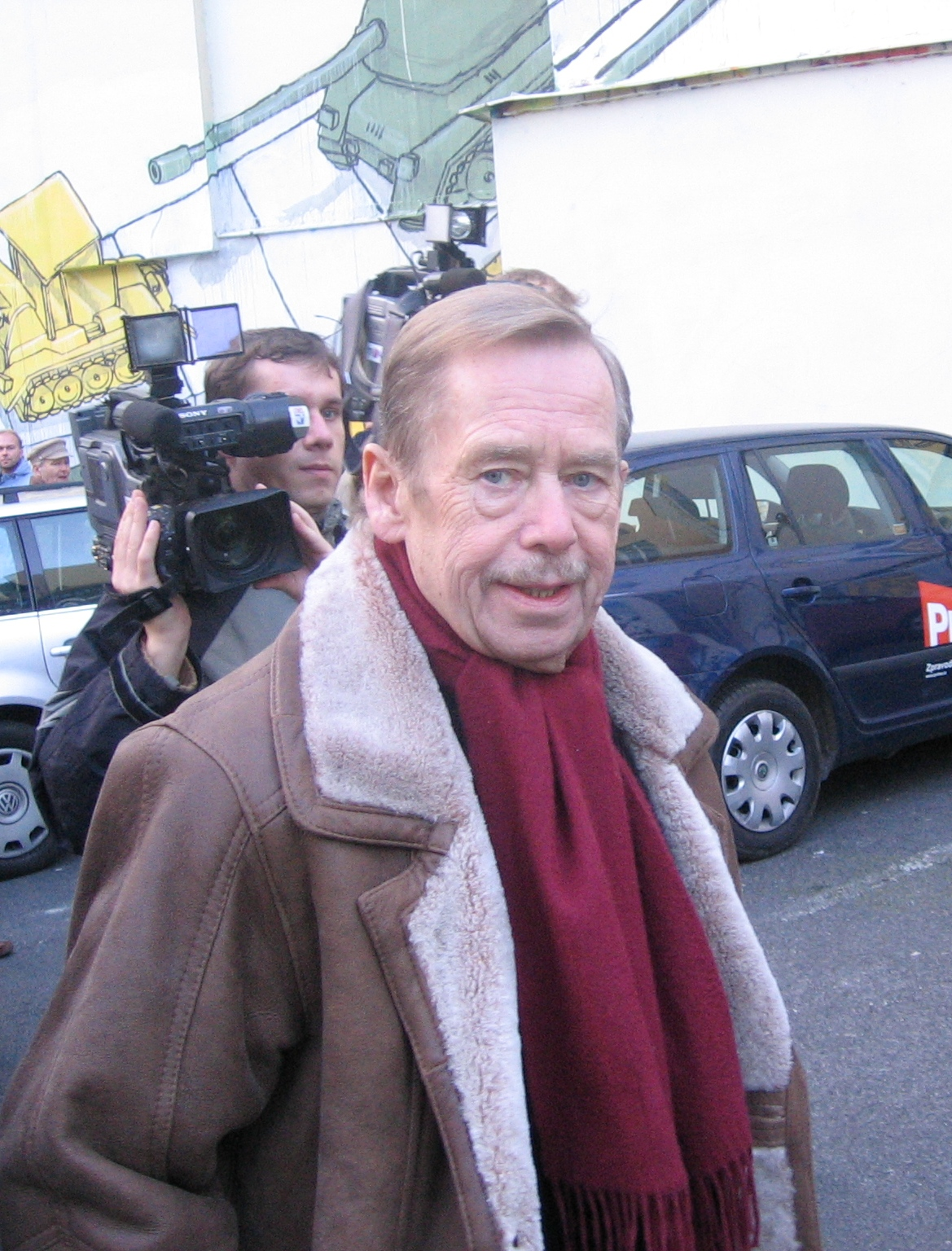 Václav Havel, former President of the Czech Republic